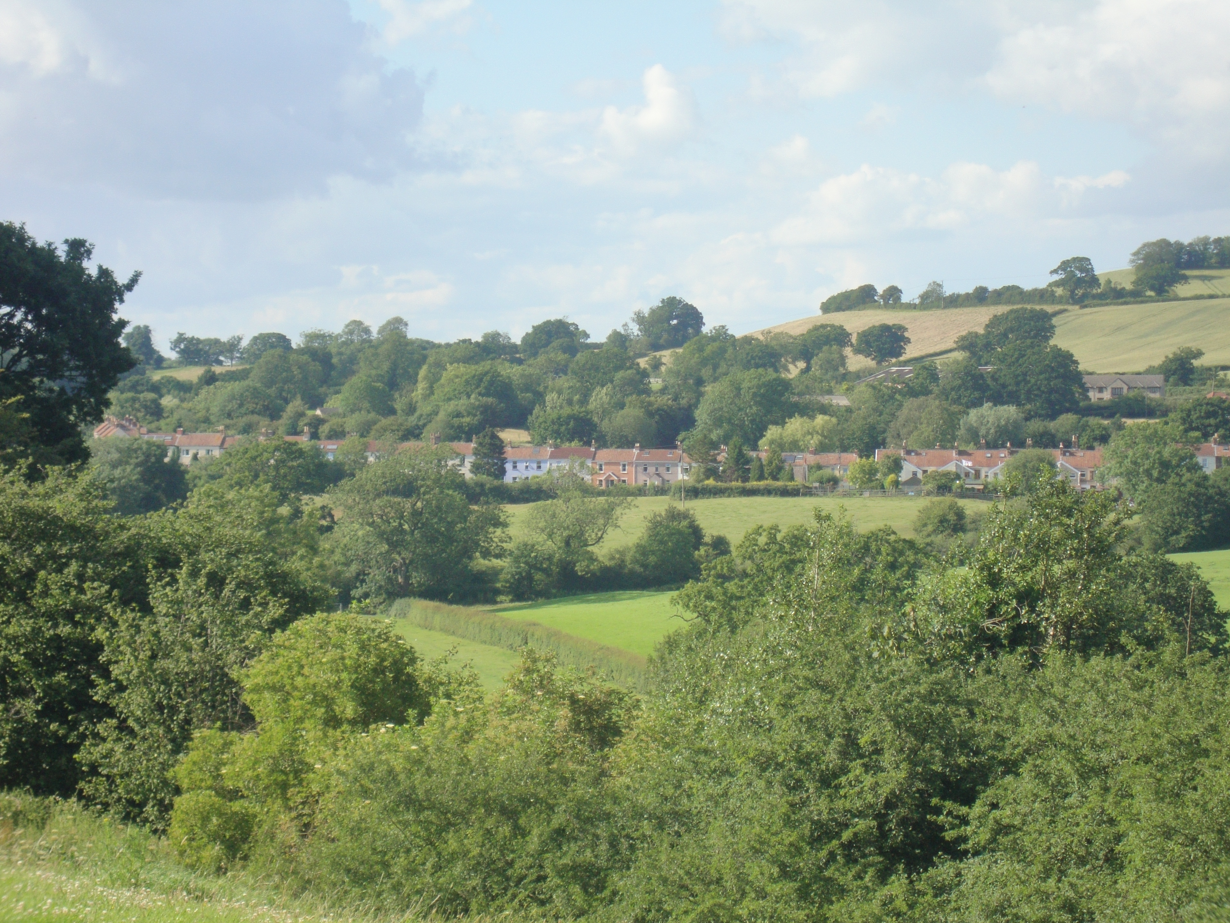 Photograph taken of the miners cottages on Maynard Terrace in Clutton taken in 2011